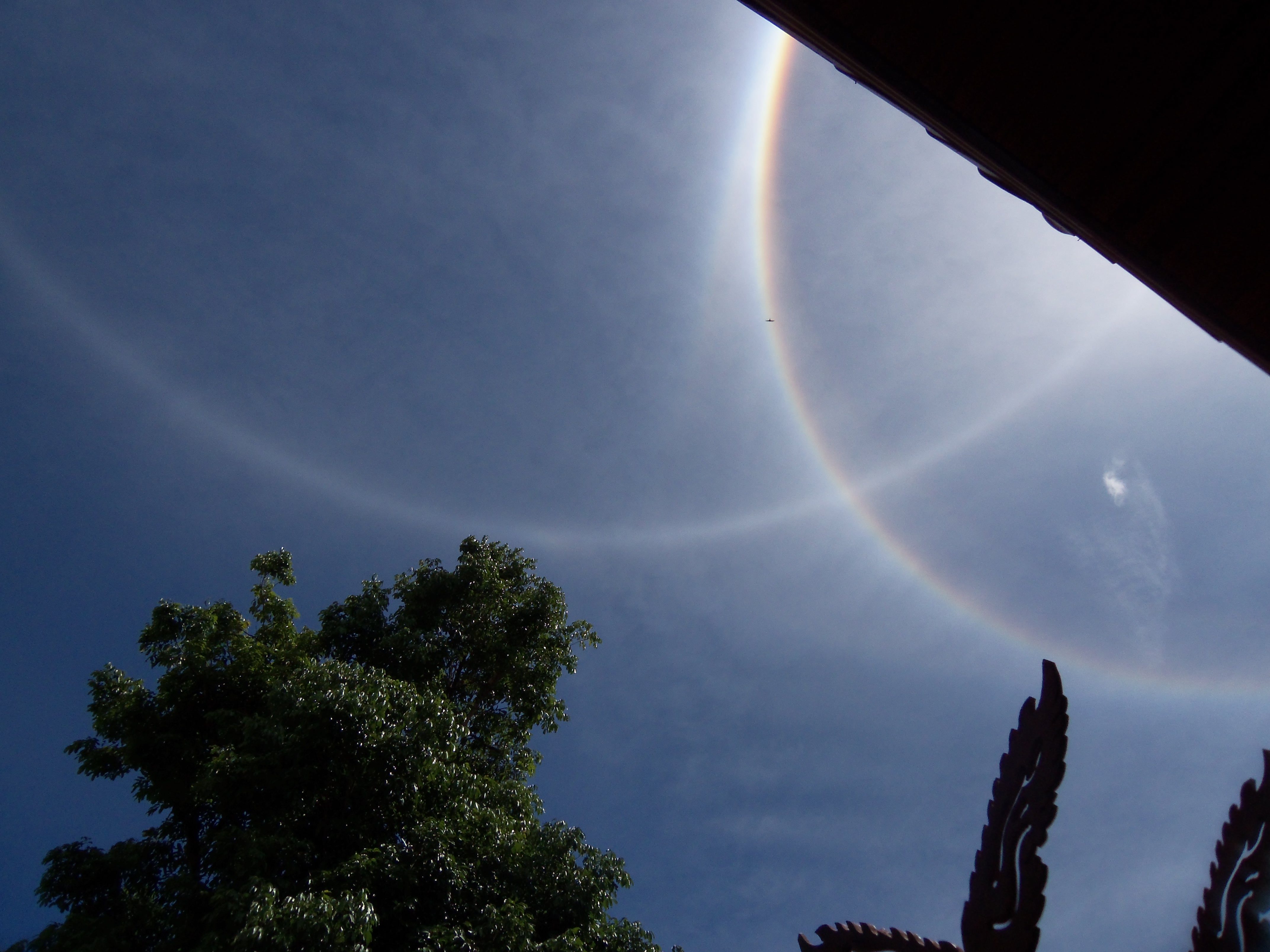 This sundog lasted less than 5 minutes. Sky was mostly clear and ground temperature 28degC. No rain or thunderstorms in the area.